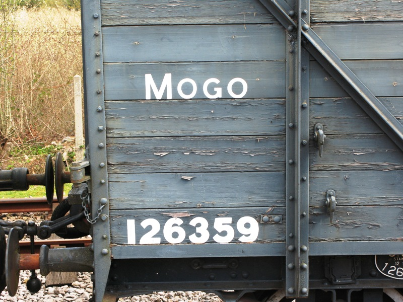 Telgraphic code and number painted on former Great Western Railway motor car-goods van 126359.